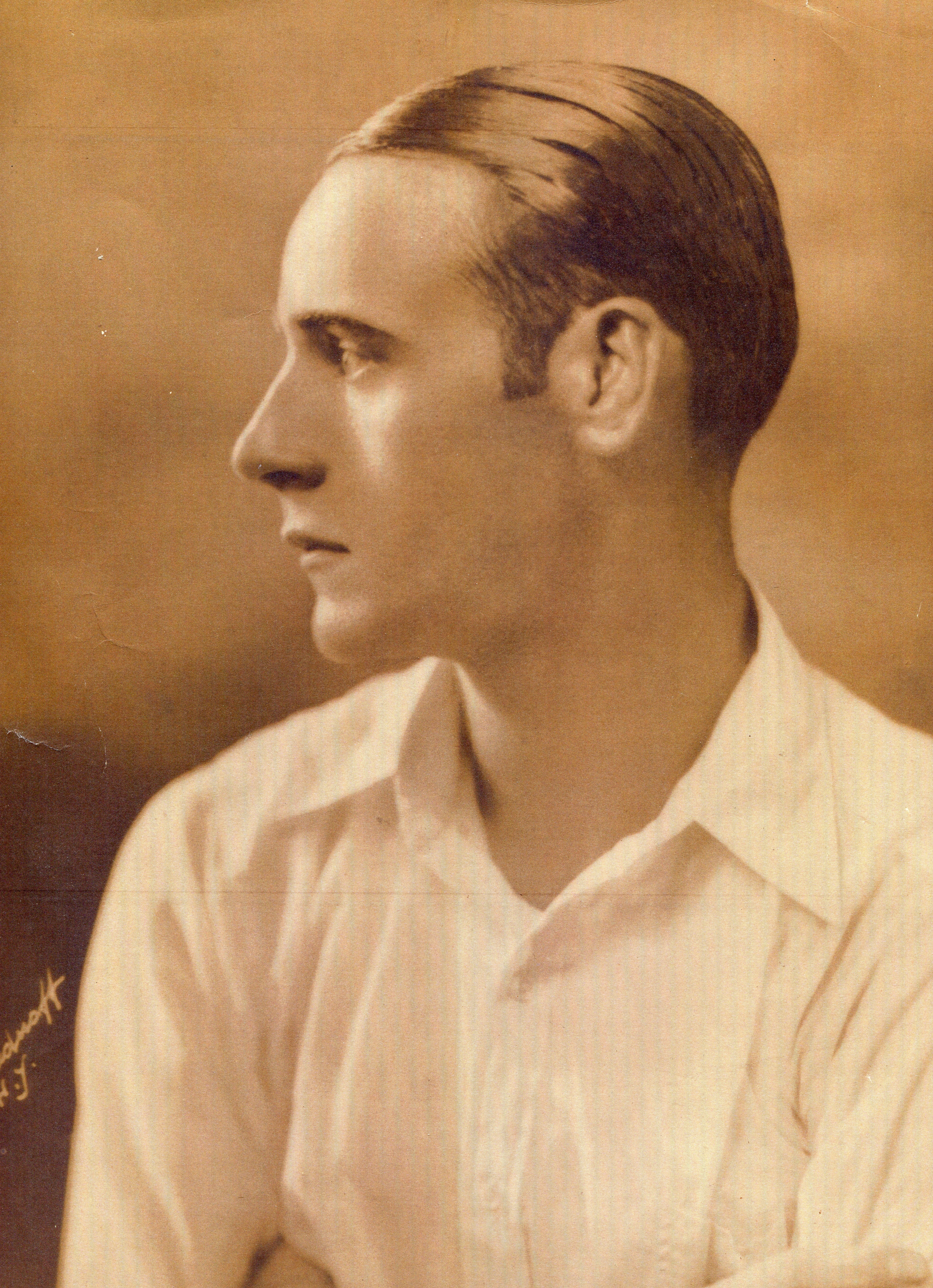 A portrait photograph of Walter Thornton